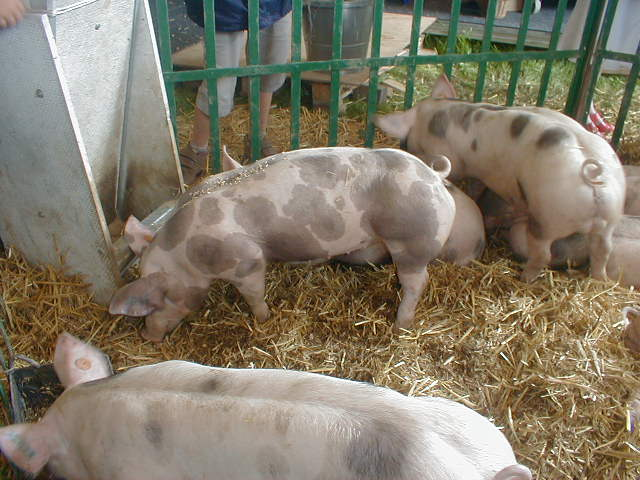 Pietrain pigs at the agricultural fair of Libramont Walon: Pourceas "Pîtrin" al fôre di Libråmont